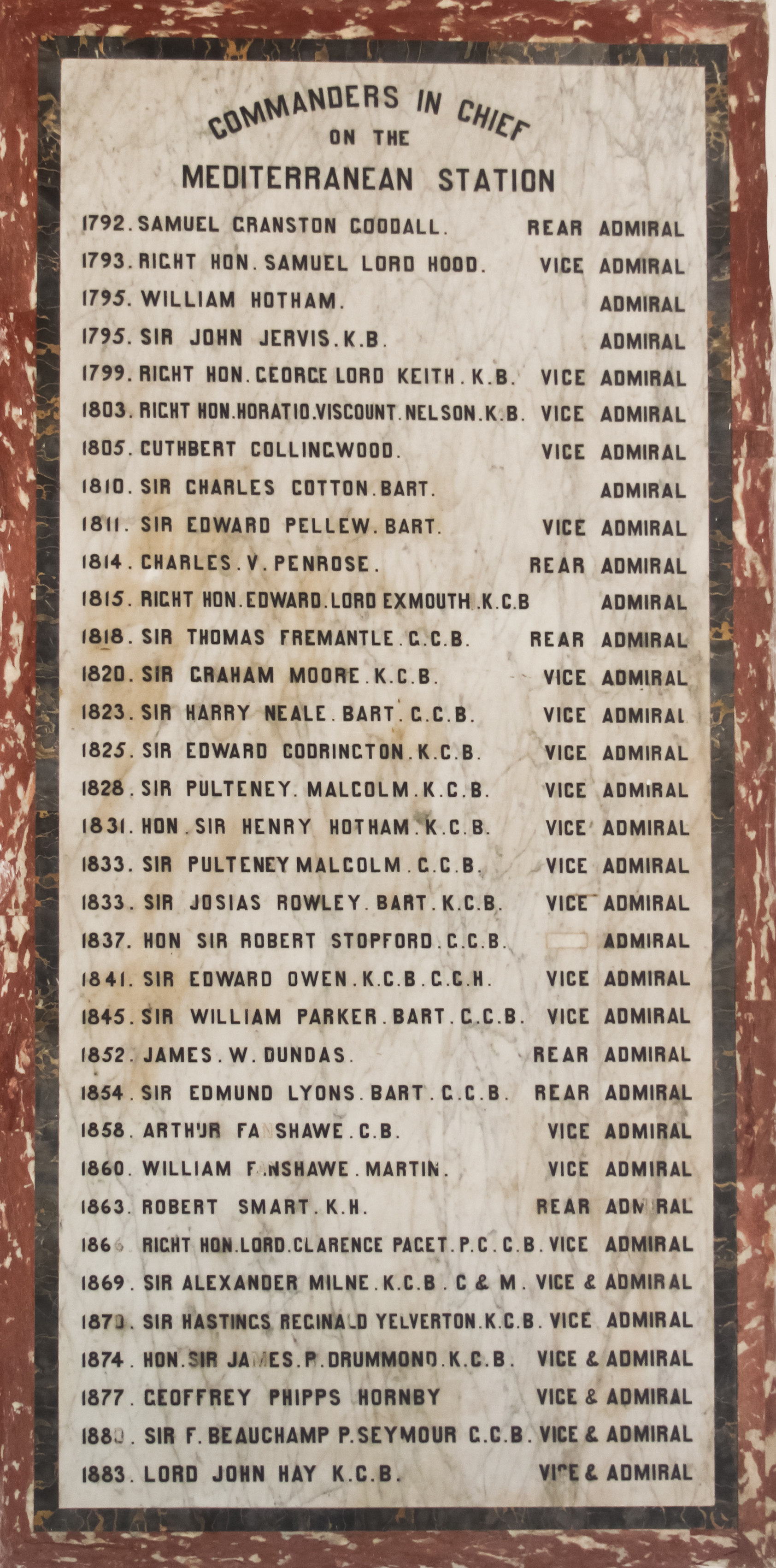 Commanders in Chief of the Mediterranean Station, 1792-1883. Memorial tablet in the ex-Admiralty of the British Fleet, now Museum of Fine Arts, Valletta, Malta